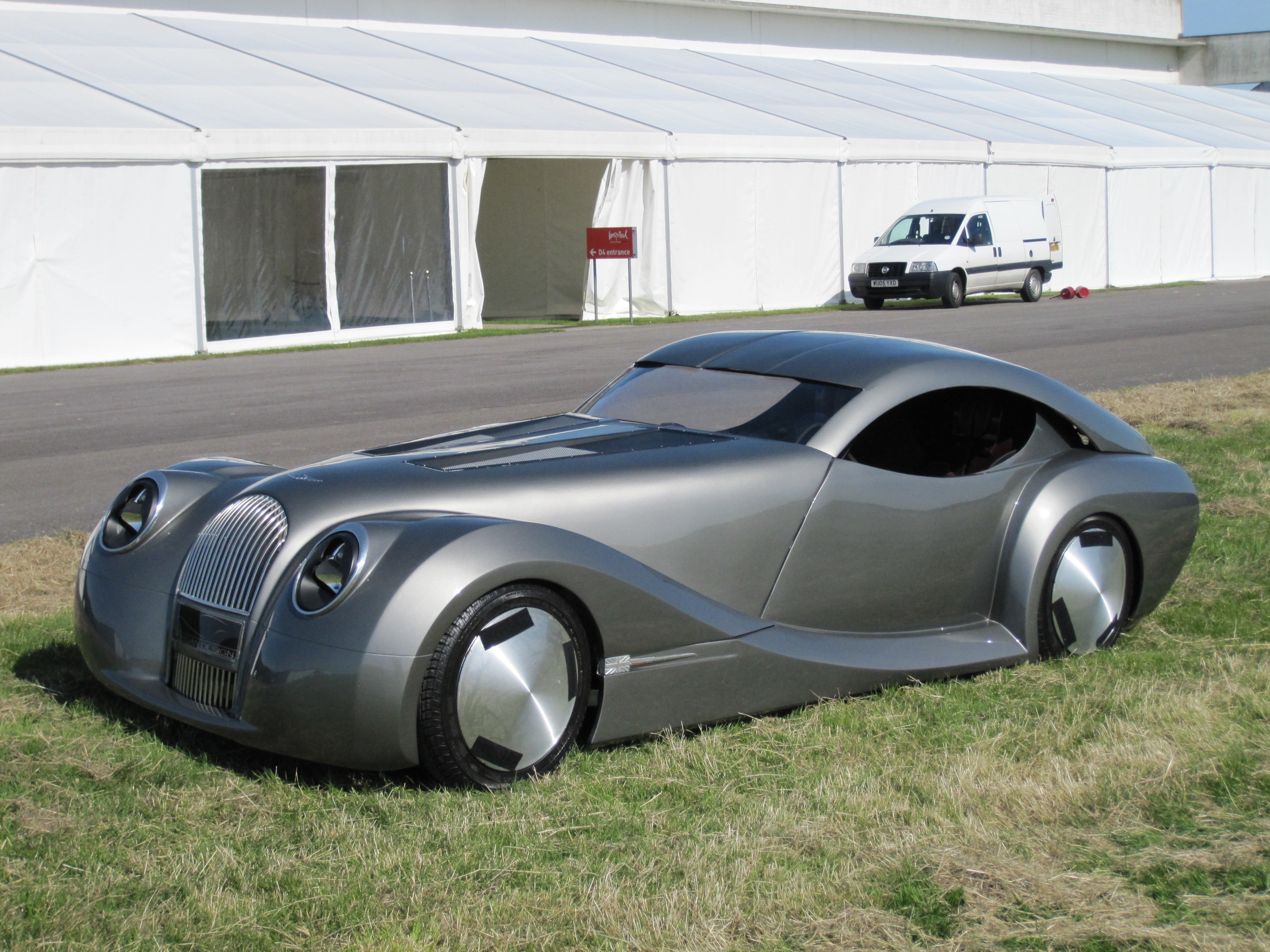 Morgan life carWroughton